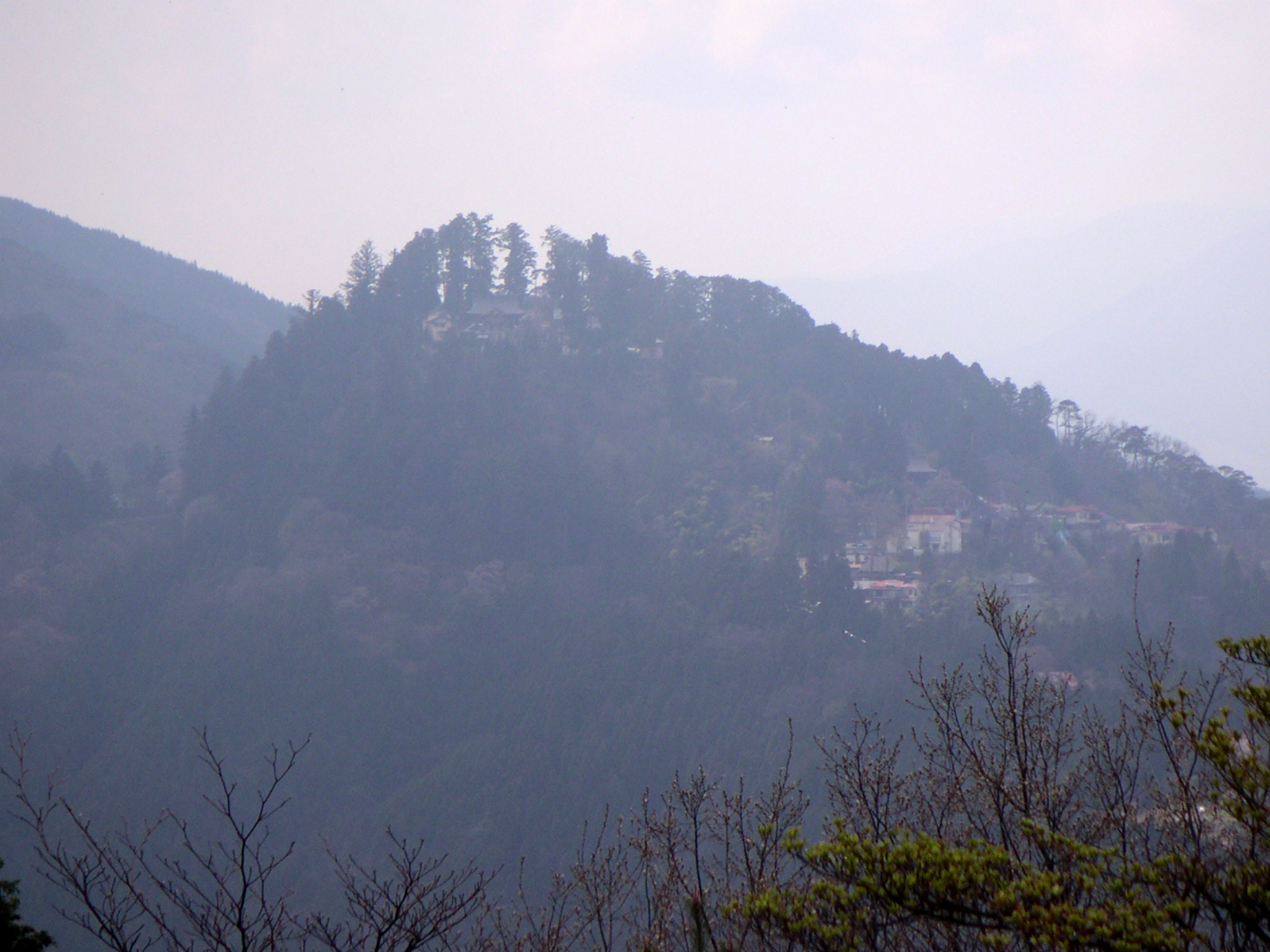 Mt. Mitake, Ōme, Tokyo